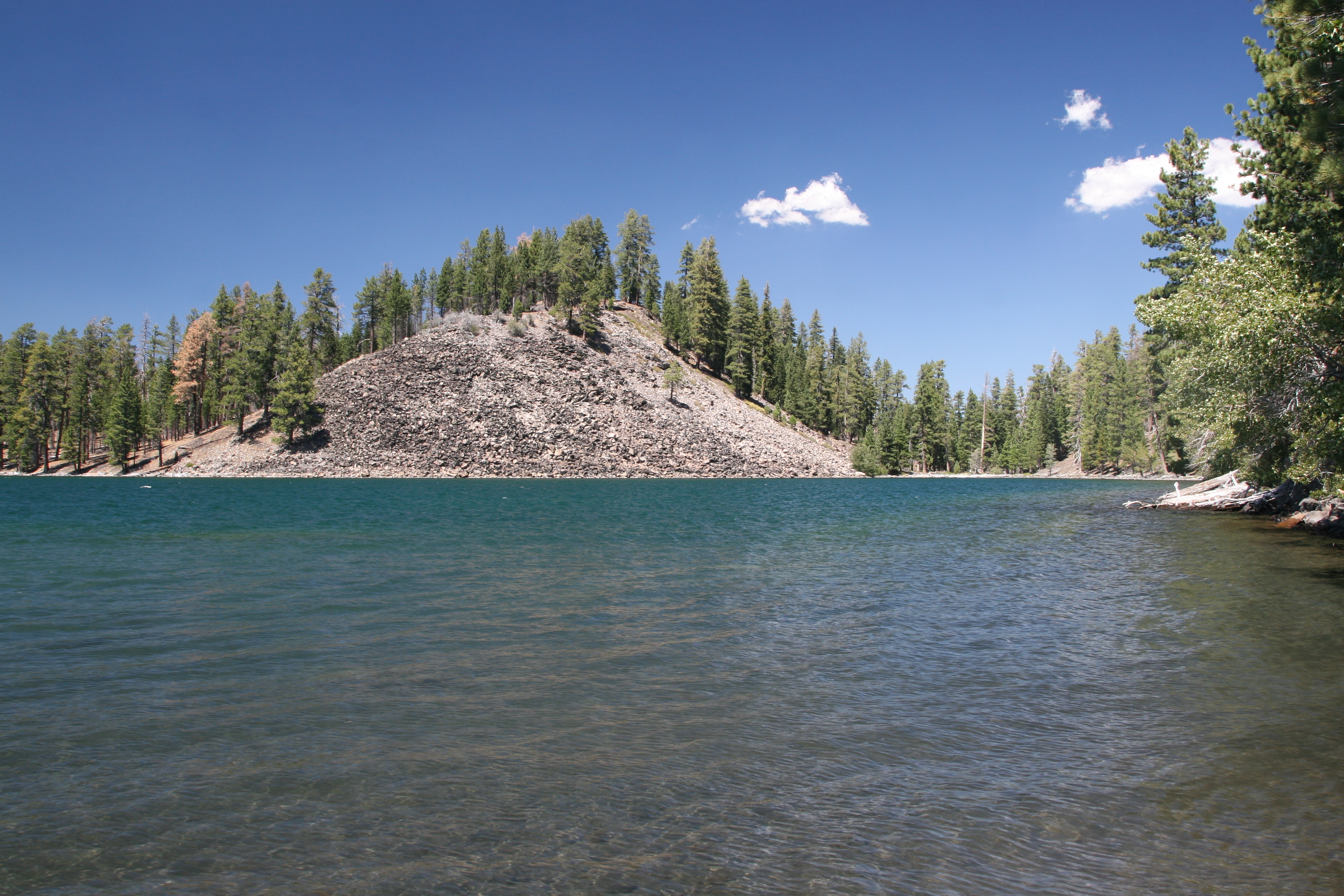 Butte Lake, Lassen Volcanic National Park, Shasta Cascade, California, USA